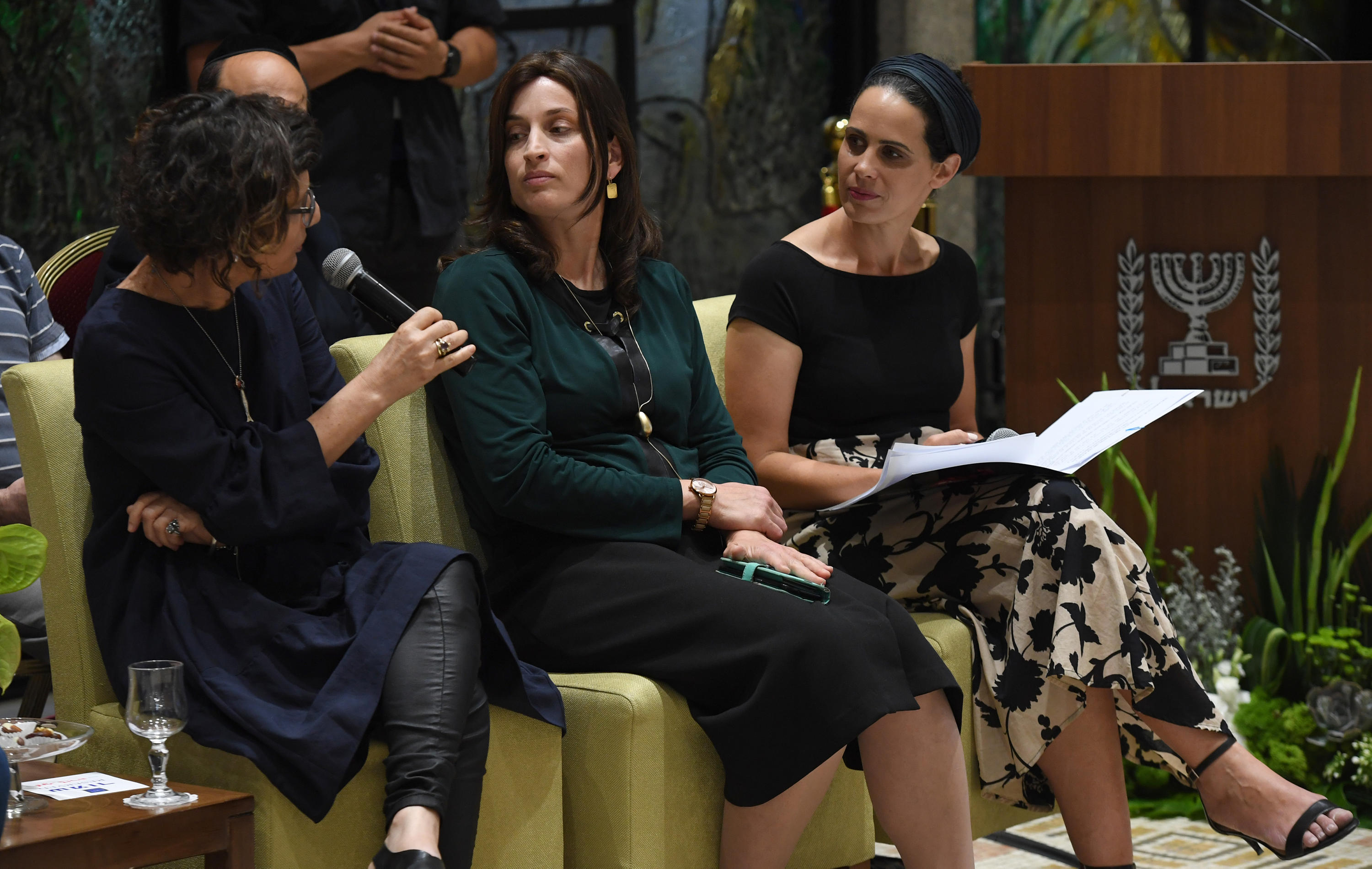 ביקור שחקנים ויוצרים ממעלה - בית הספר לטלוויזיה לקולנוע ולאמנויות בבית הנשיא